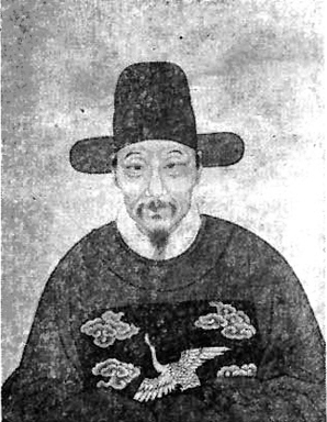 Wang Shizhen, politician, poet and writer of late Ming Dynasty.